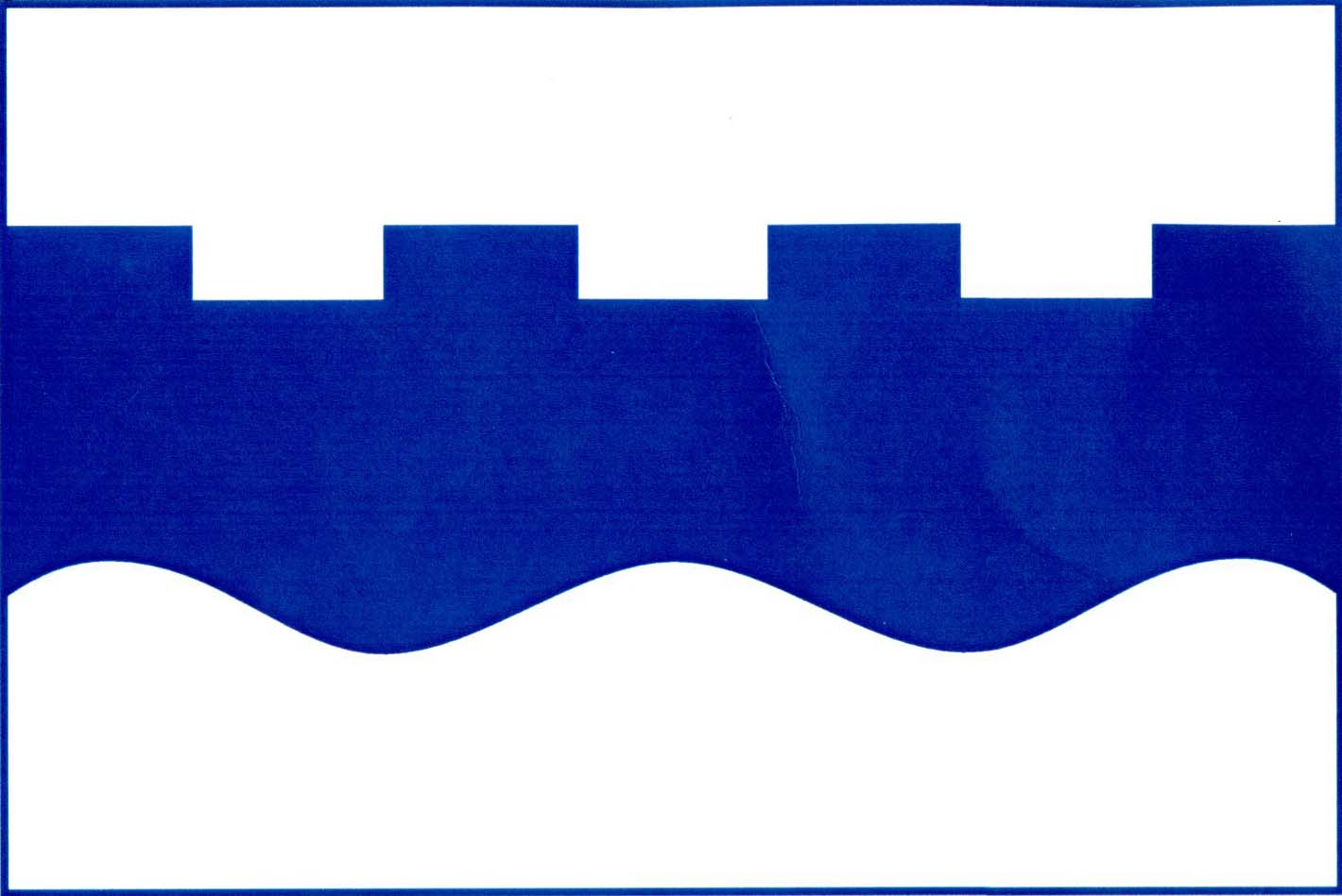 Flag of Libochovičky, Kladno District